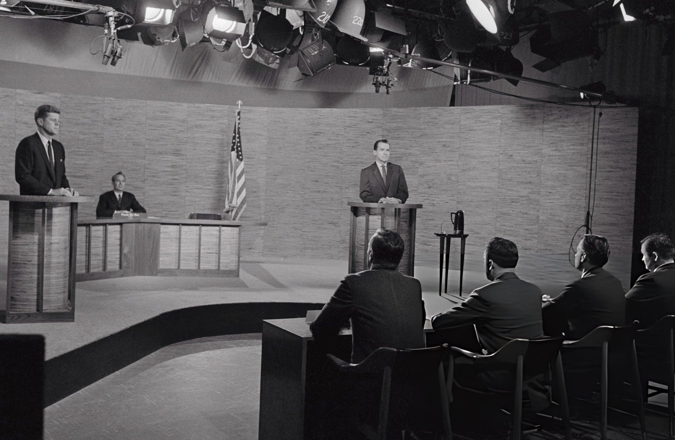 Photo of the second of the four presidential debates held during the 1960 presidential election. This debate took place in Washington D.C. at NBC's WRC-TV studios on October 7, 1960. Original caption: "WAP-100713-10/7/60-WASHINGTON: This is a general view of the set for the joint appearance on TV by Sen.John F.Kennedy(at left podium)and Vice President Richard M.Nixon(at right po­dium)from NBC studios 10/7. At center rear is moderator Frank McGee,of NBC. The four news men who asked the questions are,LTR: Hal Levy,of Newsday; Alvin Spivak of United Press International; Edward P.Morgan,of ABC; and Paul Niven,of CBS. UPI TELEPHOTO rtf"